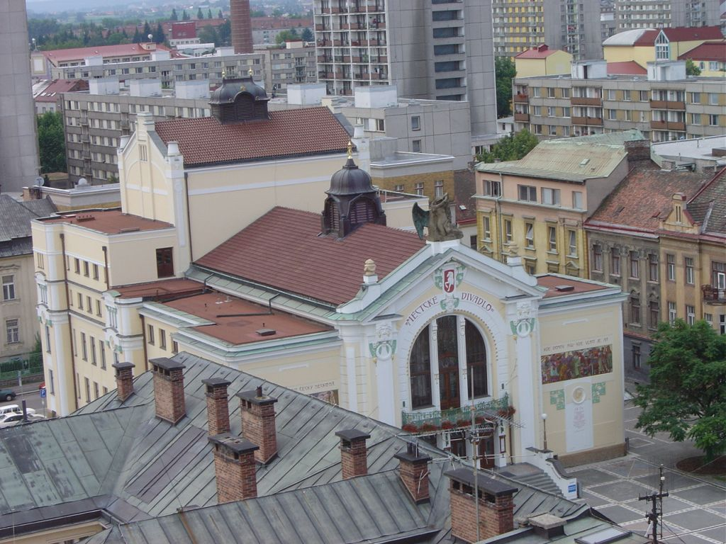 Green Tower in Pardubice - view on the Vychodoceske Theatre